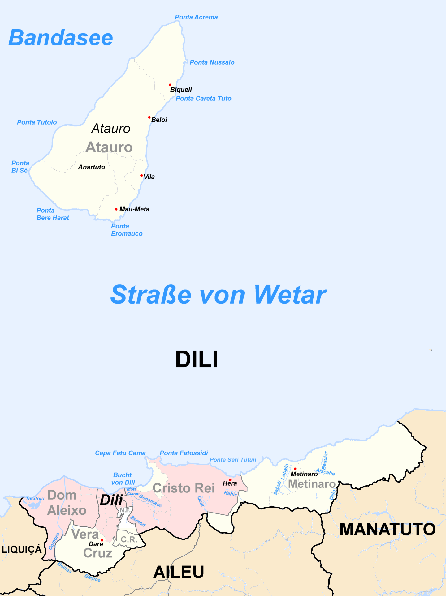 Cities and rivers of district of Cova Lima (East Timor). Urban sucos in pink.